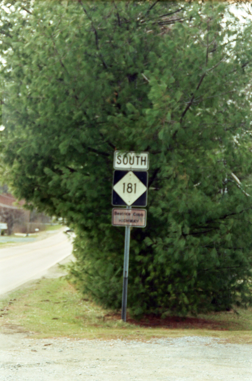 Old Beatrice Cobb Highway sign, pictured in 2001 in the community of Pineola, North Carolina. These signs no longer exist.